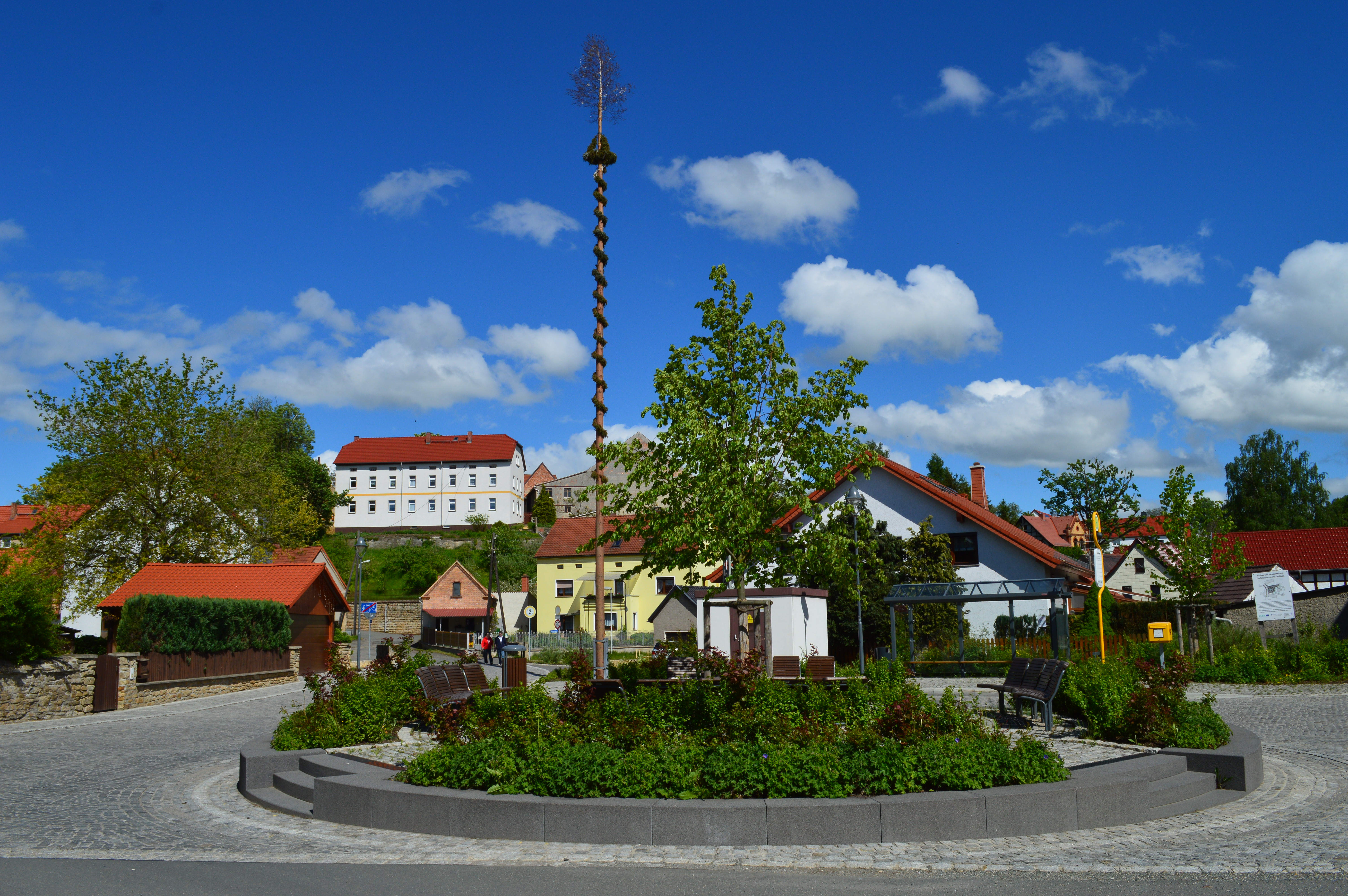 Großaga, Gera, Germany, on Whit Monday 2013: Village square